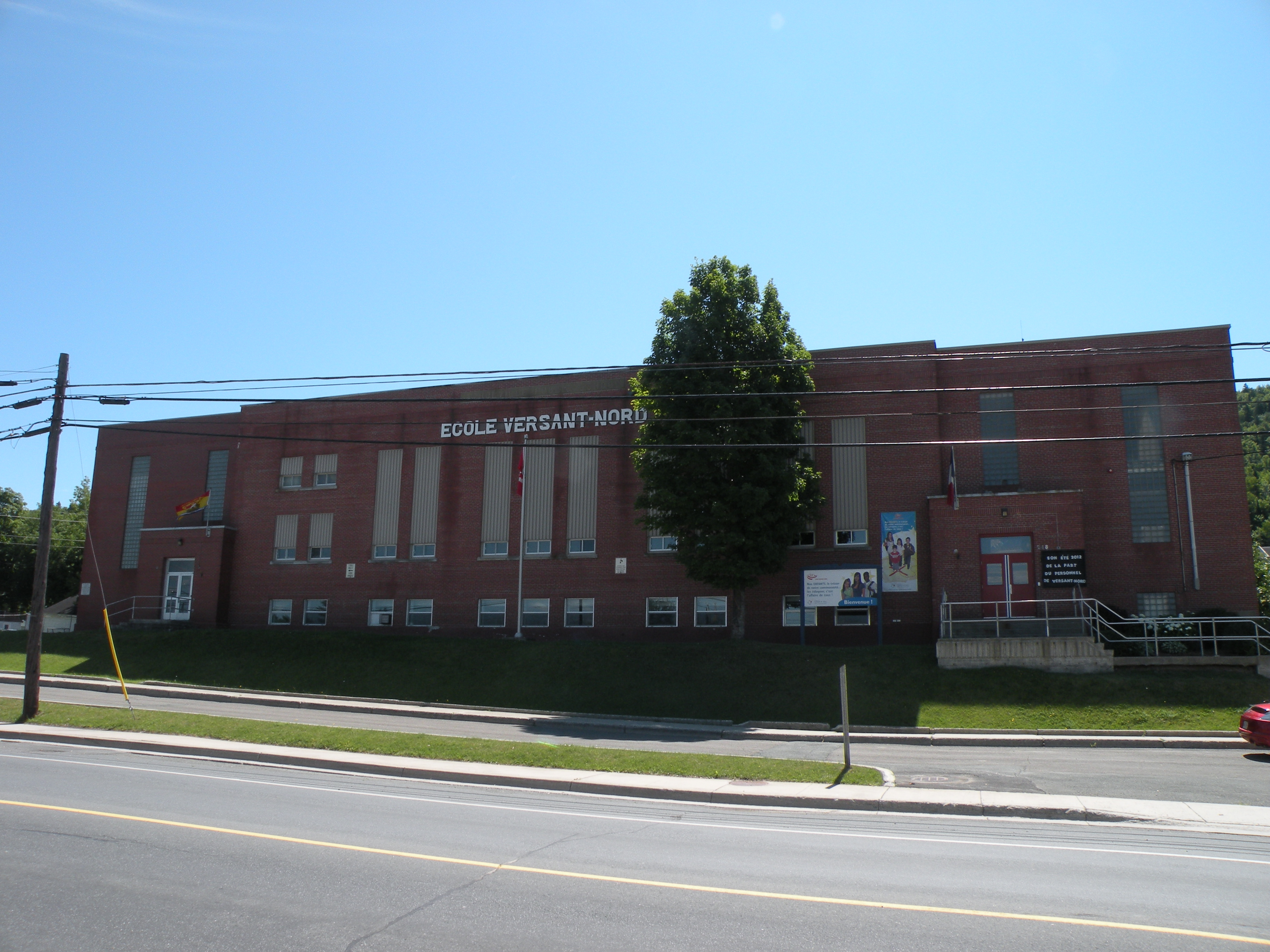 The Versant-Nord schooll in Atholville, New Brunswick, Canada.